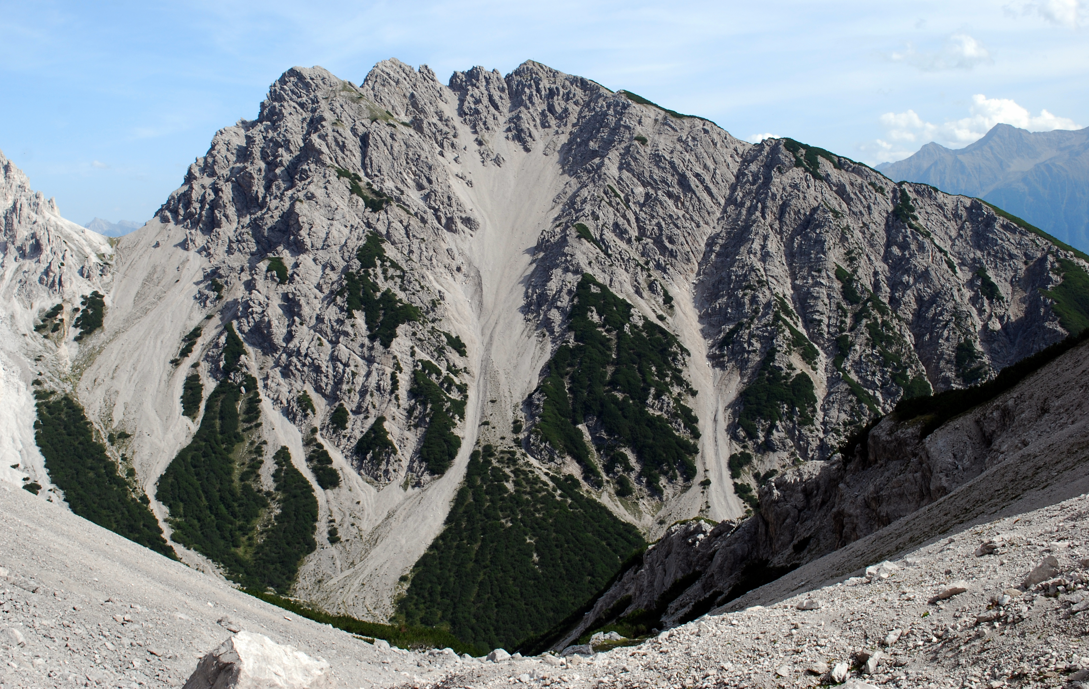 Wankspitze from NW (Hölltörl)